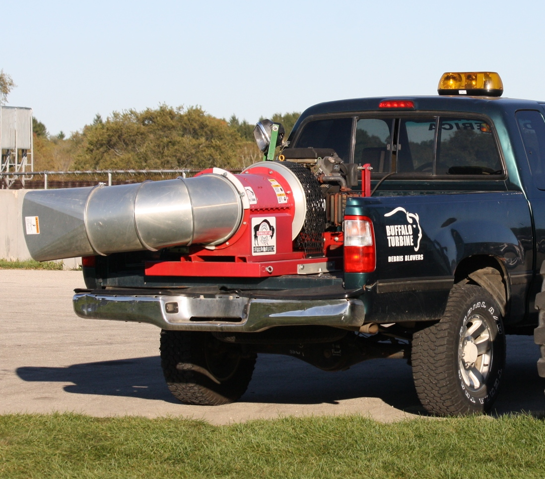 A Jet Dryer mounted on a truck at a NASCAR Nationwide Series race at Road America.